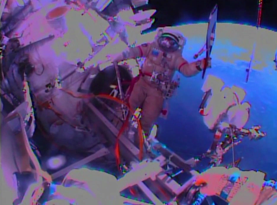 The view from Flight Engineer Sergey Ryazanskiy's helmet camera as Flight Engineer Oleg Kotov waves the Olympic torch outside the International Space Station during Saturday's spacewalk.